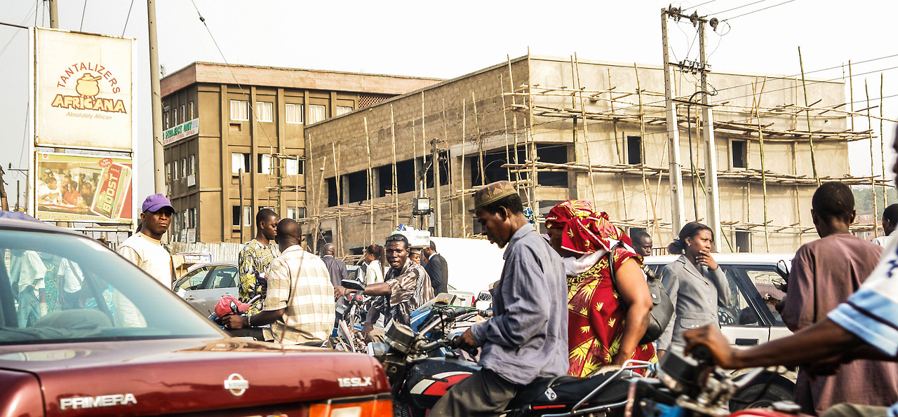 Local transportation method in Nigeria